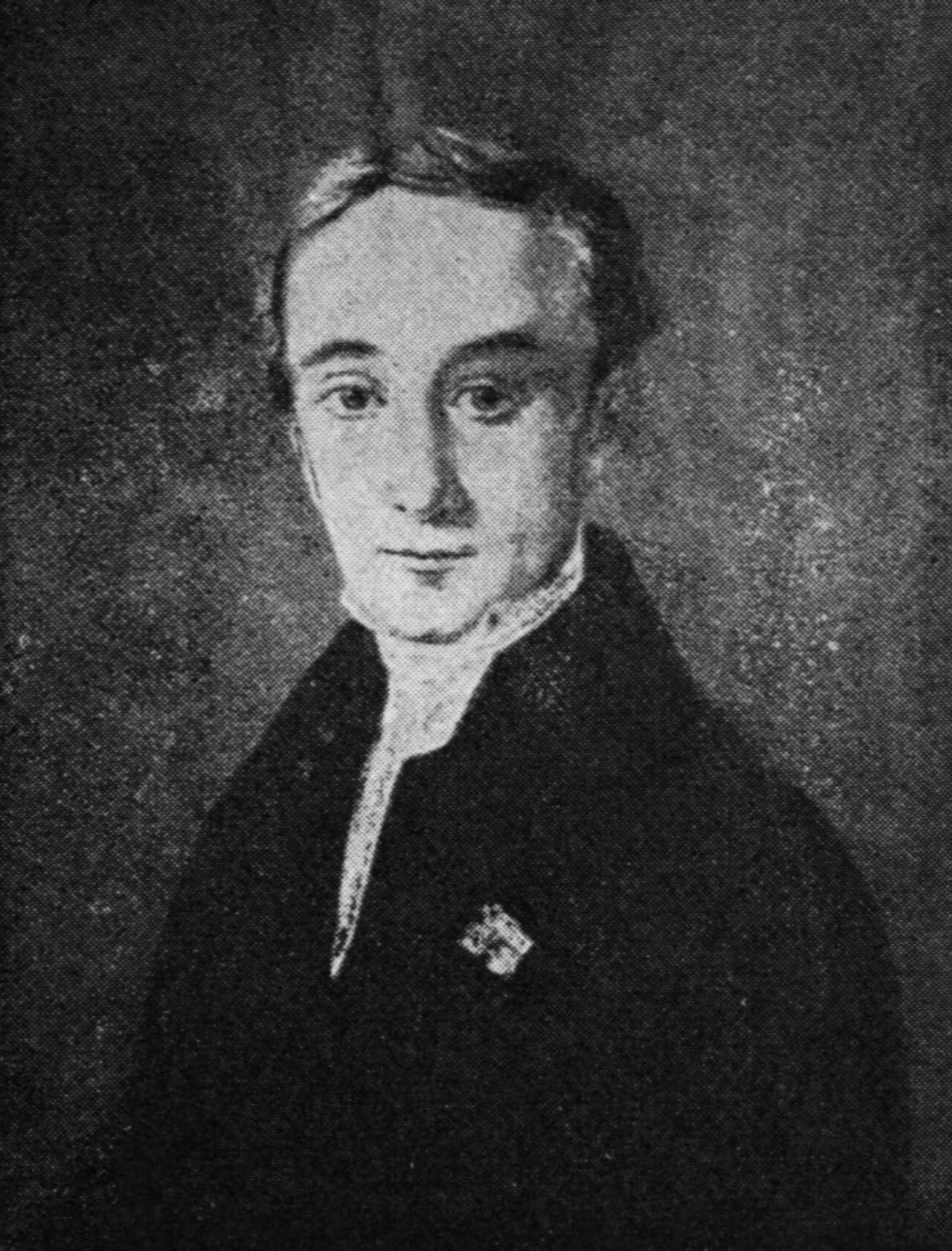 Erwin Speckter: Portrait of Friedrich Seestern-Pauly, Sparkasse Schwarzenbek